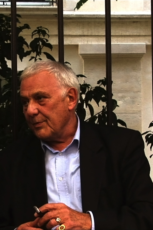 French writer Philippe Sollers at the inauguration of Gaston-Gallimard street in Paris 15.06.2011